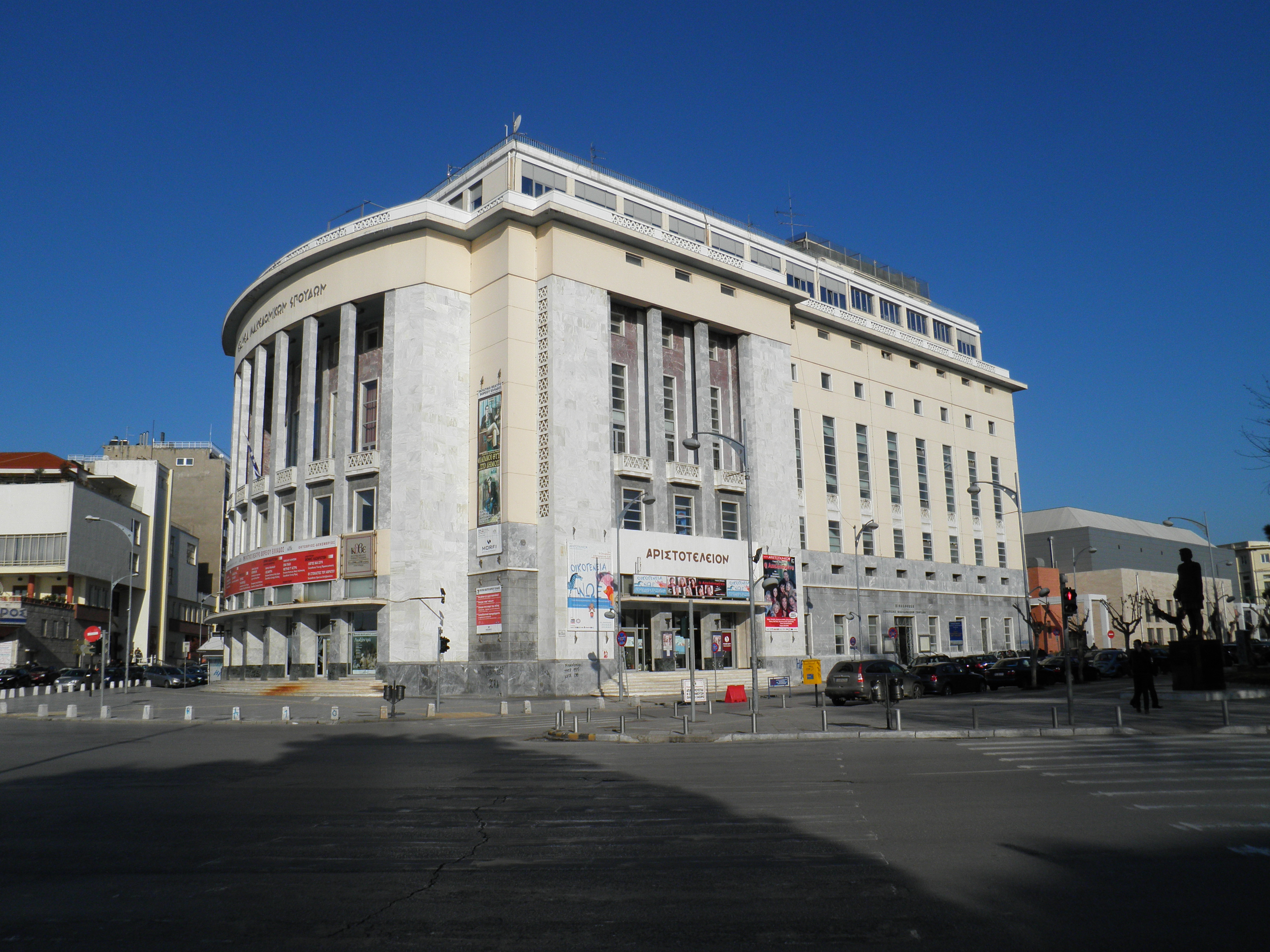 North Greece National Theatre